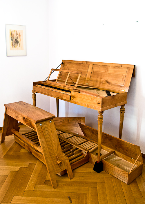 A Pedal clavichord made by Benedikt Claas in 2005. (Northeim, Germany) owned by Benjamin Righetti (Lausanne, Switserland).